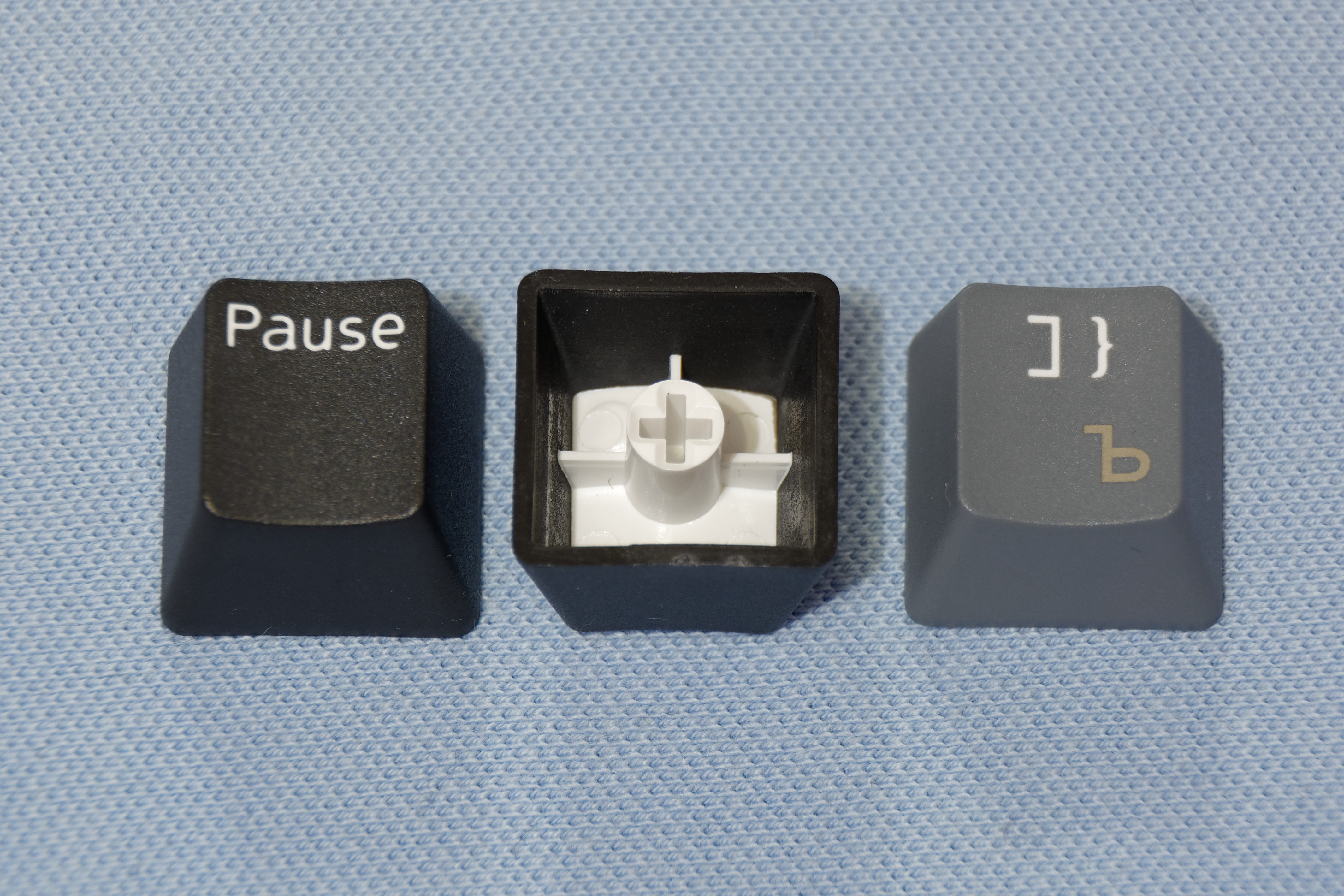 Double-shot keycaps: peculiarities of font, 2nd plastic, laser engraving